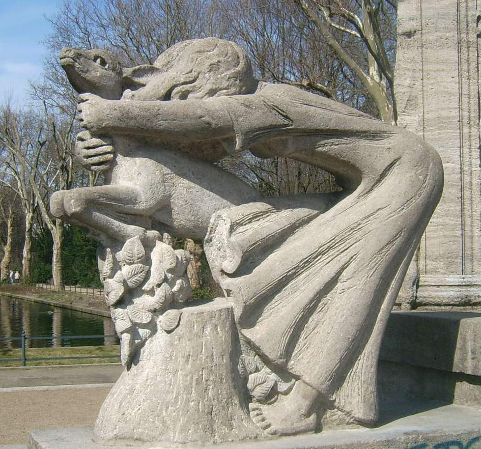 The Schulenburgpark in Berlin-Neukölln, detail of the tale fountain. Sculpture Brüderchen und Schwesterchen (of the fairy tale "brother and sister"), created on the occasion of the fountain-restoration in 1970 by the sculptress Katharina Szelinski-Singer.